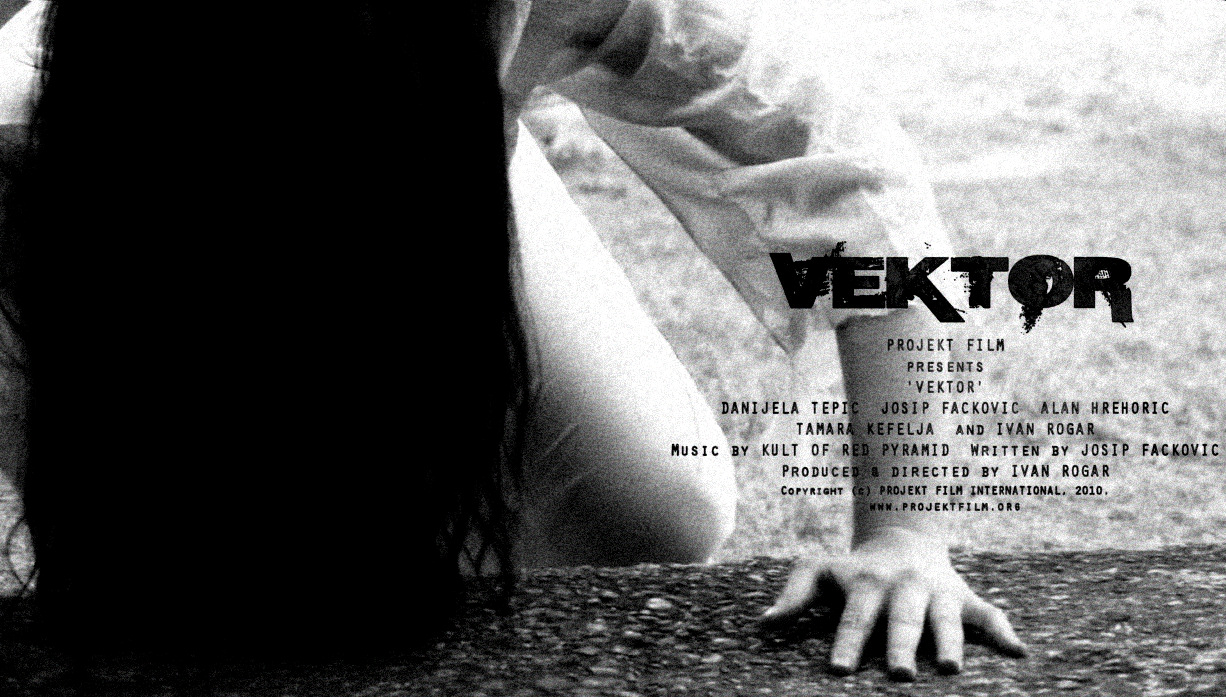 One of the posters for 'VEKTOR (2010)' film. Directed by Ivan Rogar.